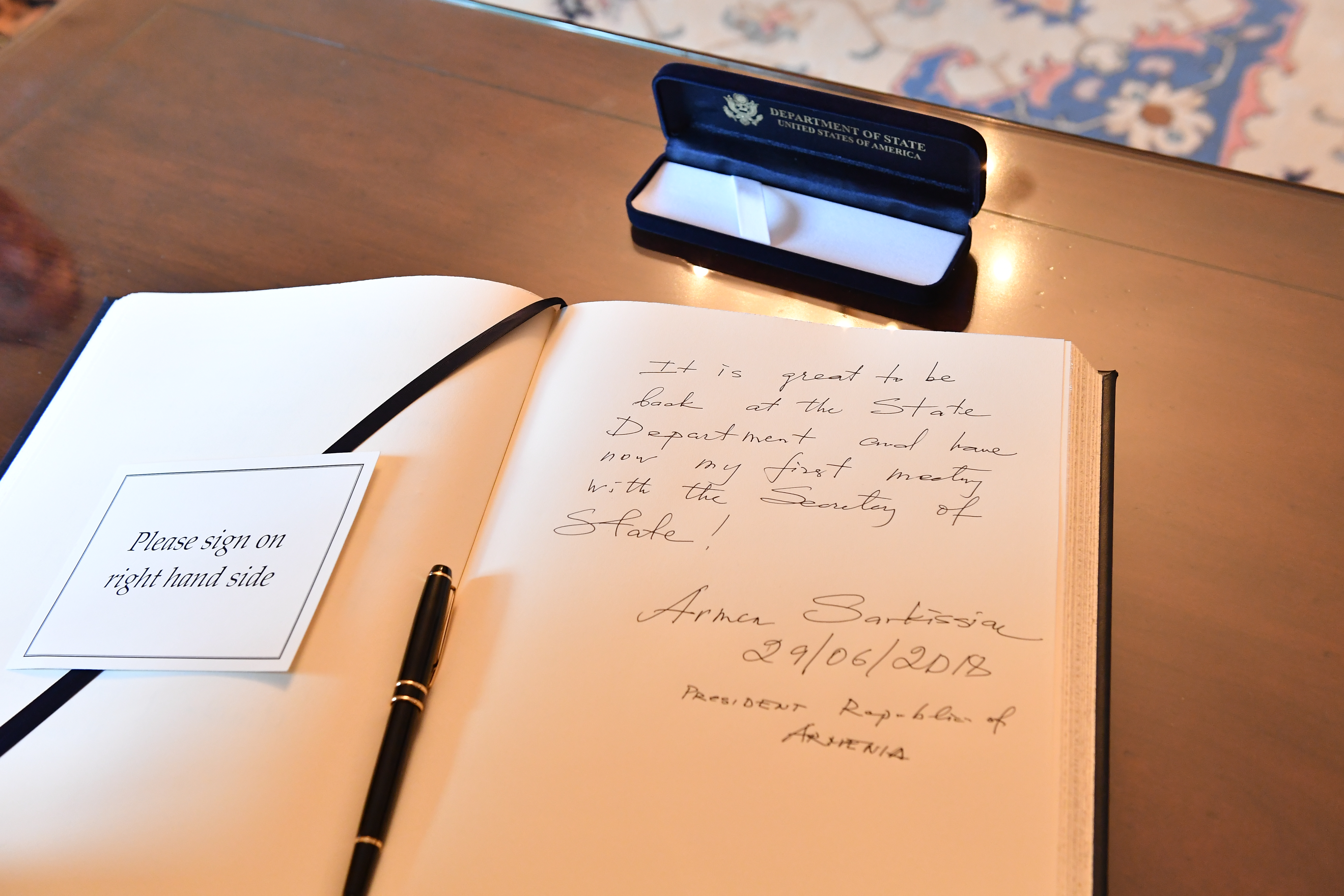 Armenian President Armen Sarkissian signs Secretary Michael R. Pompeo's guestbook, at the U.S. Department of State on June 29, 2018. (State Department photo/ Public Domain)